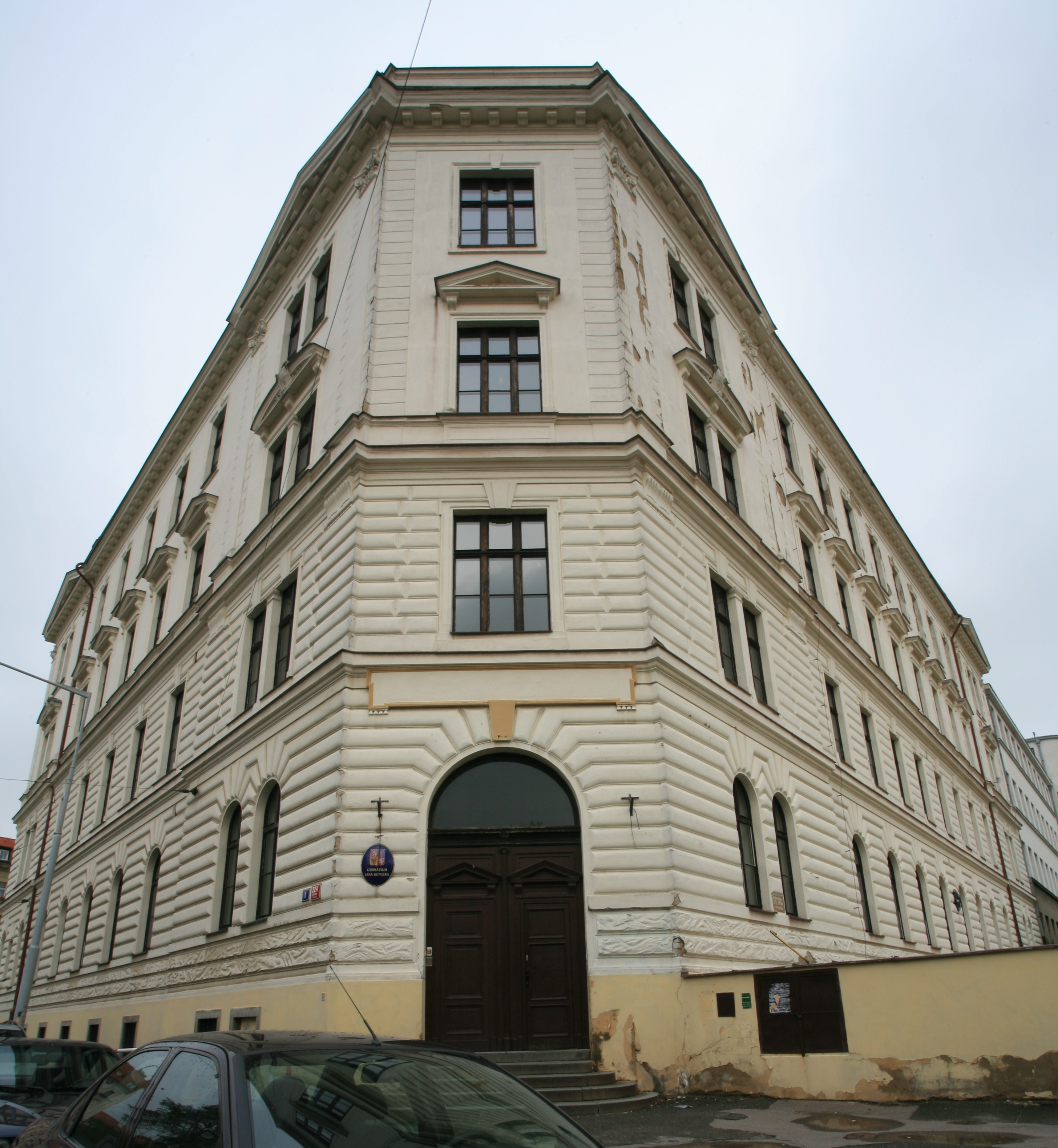 The building of Johannes Kepler Grammar School in Prague, the side entrance for students in Hládkov.